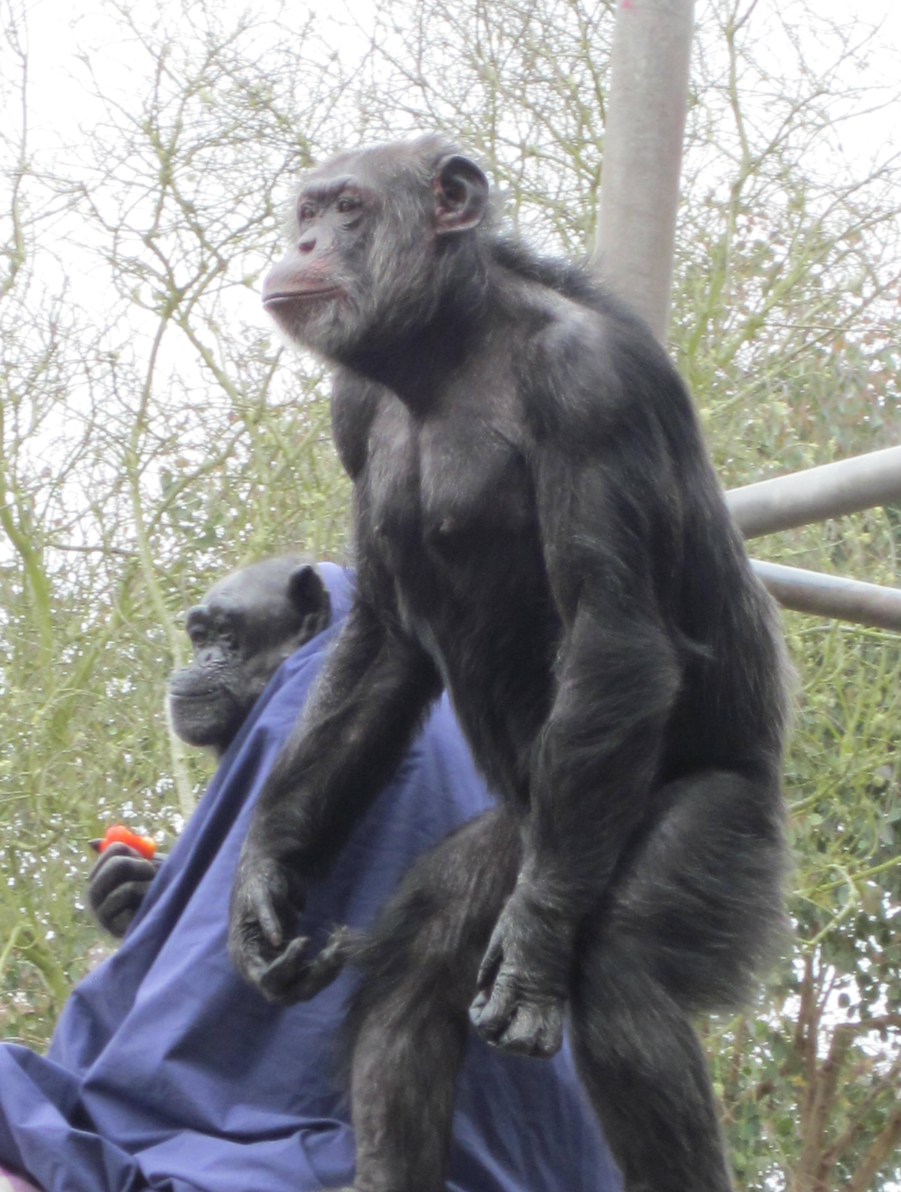 Common Chimpanzees in the San Francisco Zoo.